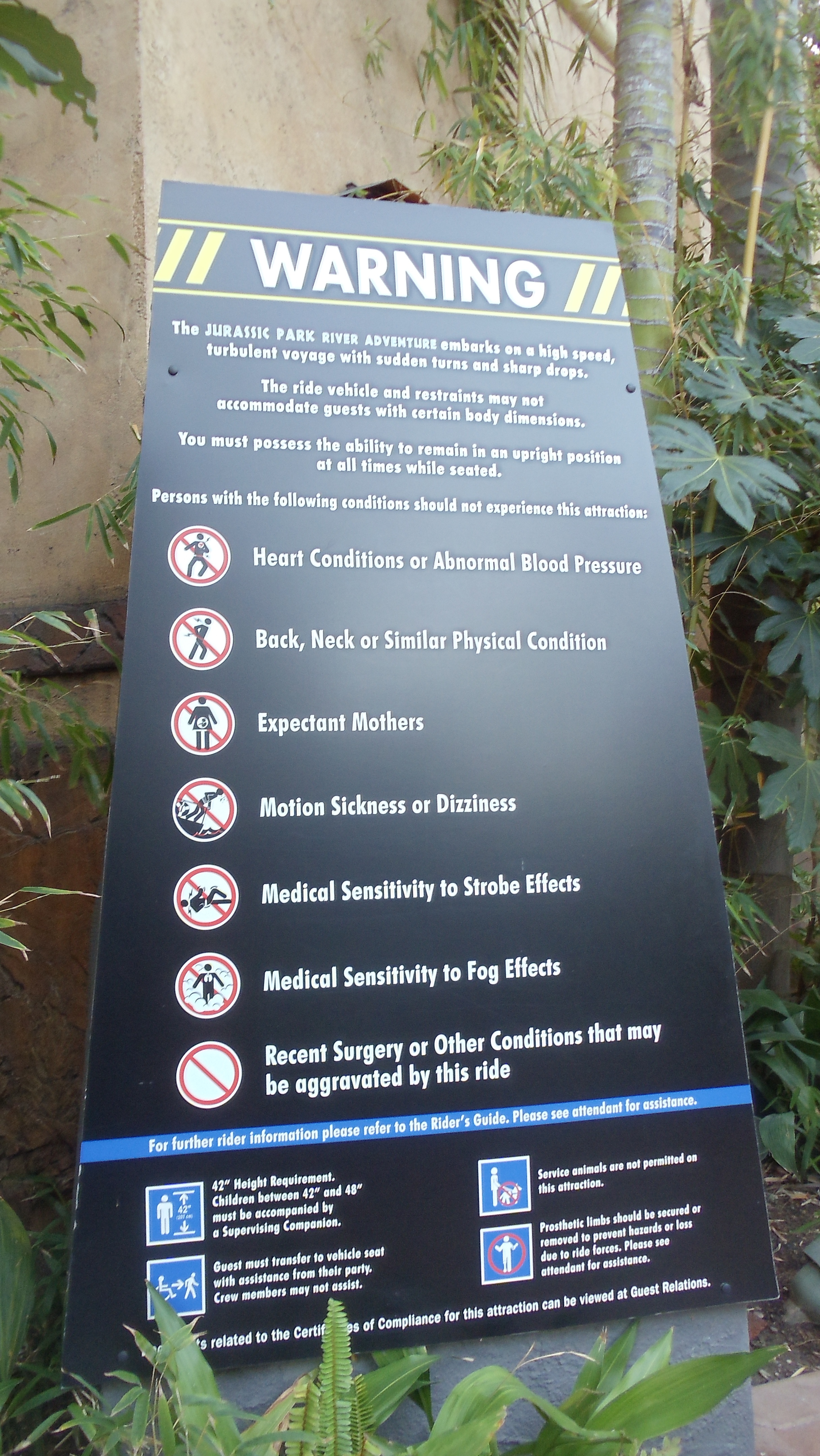 Warning sign at the entrance of the Jurassic Park River adventure ride. The water ride features 1 small drop and a final 84-foot plunge at the end of the ride.